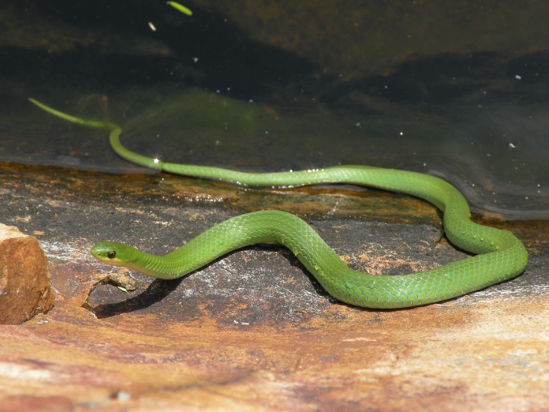 Smooth Green Snake (Opheodrys vernalis, sometimes Liochlorophis vernalis) at Agnew Lake near Espanola Ontario